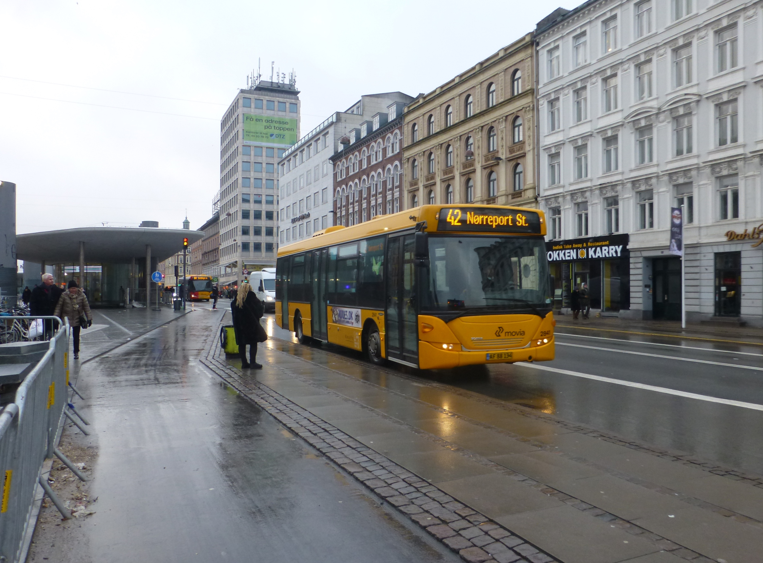 Movia bus line 42 at Nørreport Station in Indre By in Copenhagen.